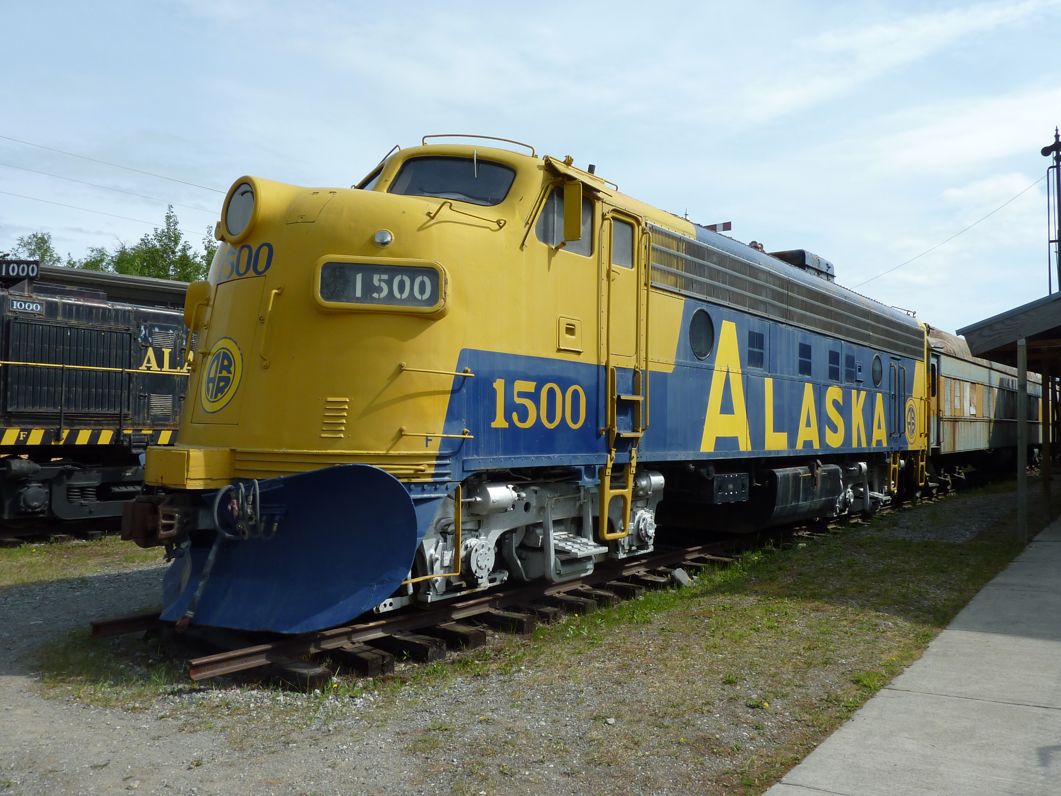 ARR Diesel engine No 1500, at Museum of Alaska, Wasilla, Alaska, USA, 2011